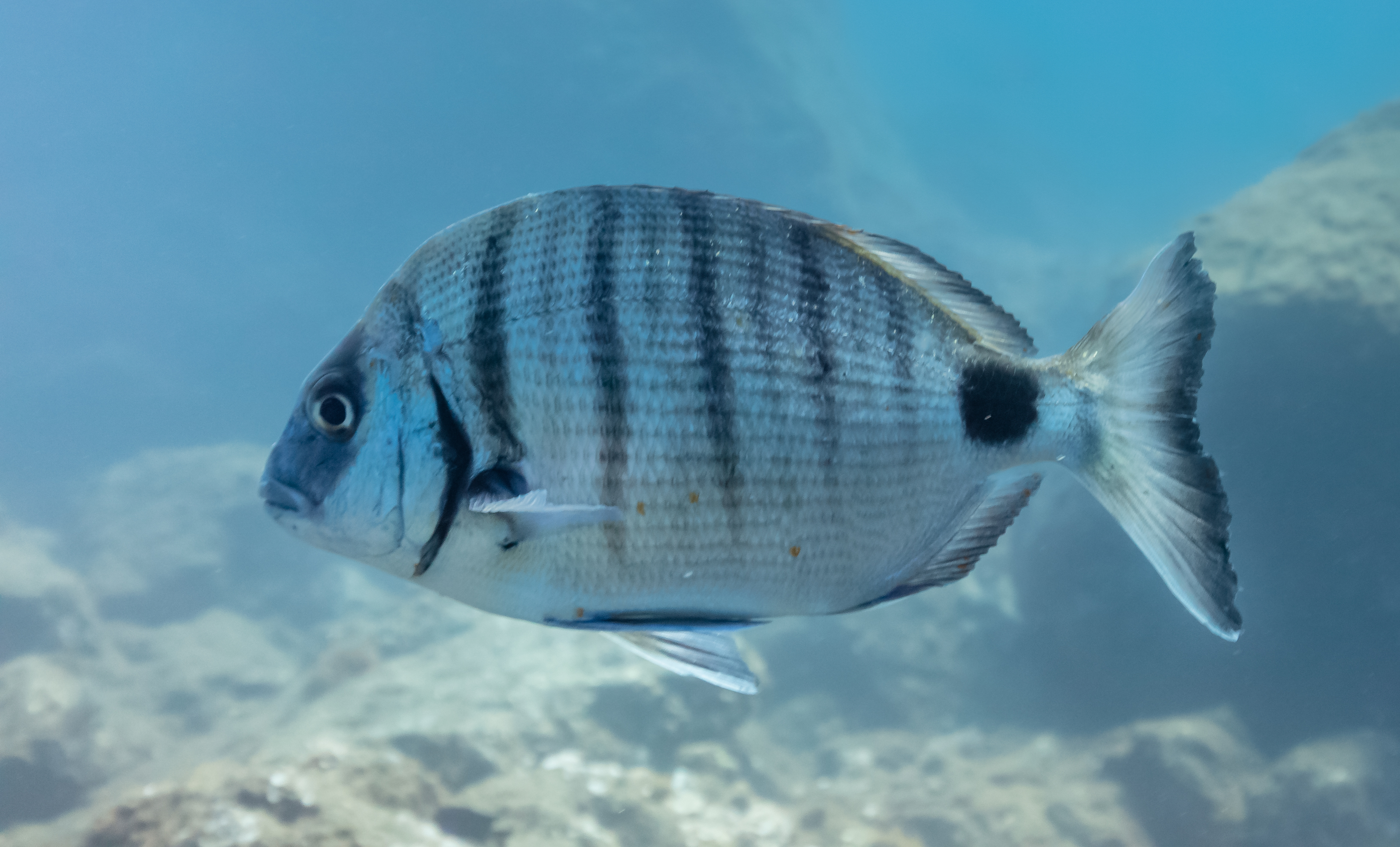 White sea bream (Diplodus sargus), Madeira, Portugal